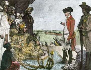 Shah Alam II, Mughal Emperor of India, reviewing the East India Company's troops, 1781 (1894). An illustration from A Short History of the English People, by John Richard Green, illustrated edition, Volume IV, Macmillan and Co, London, New York, 1894.